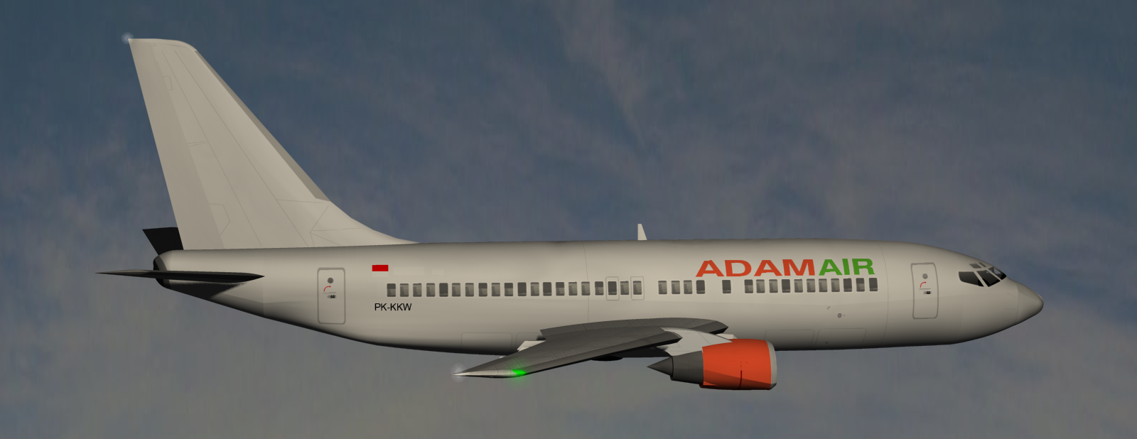 Adam Air Flight 574